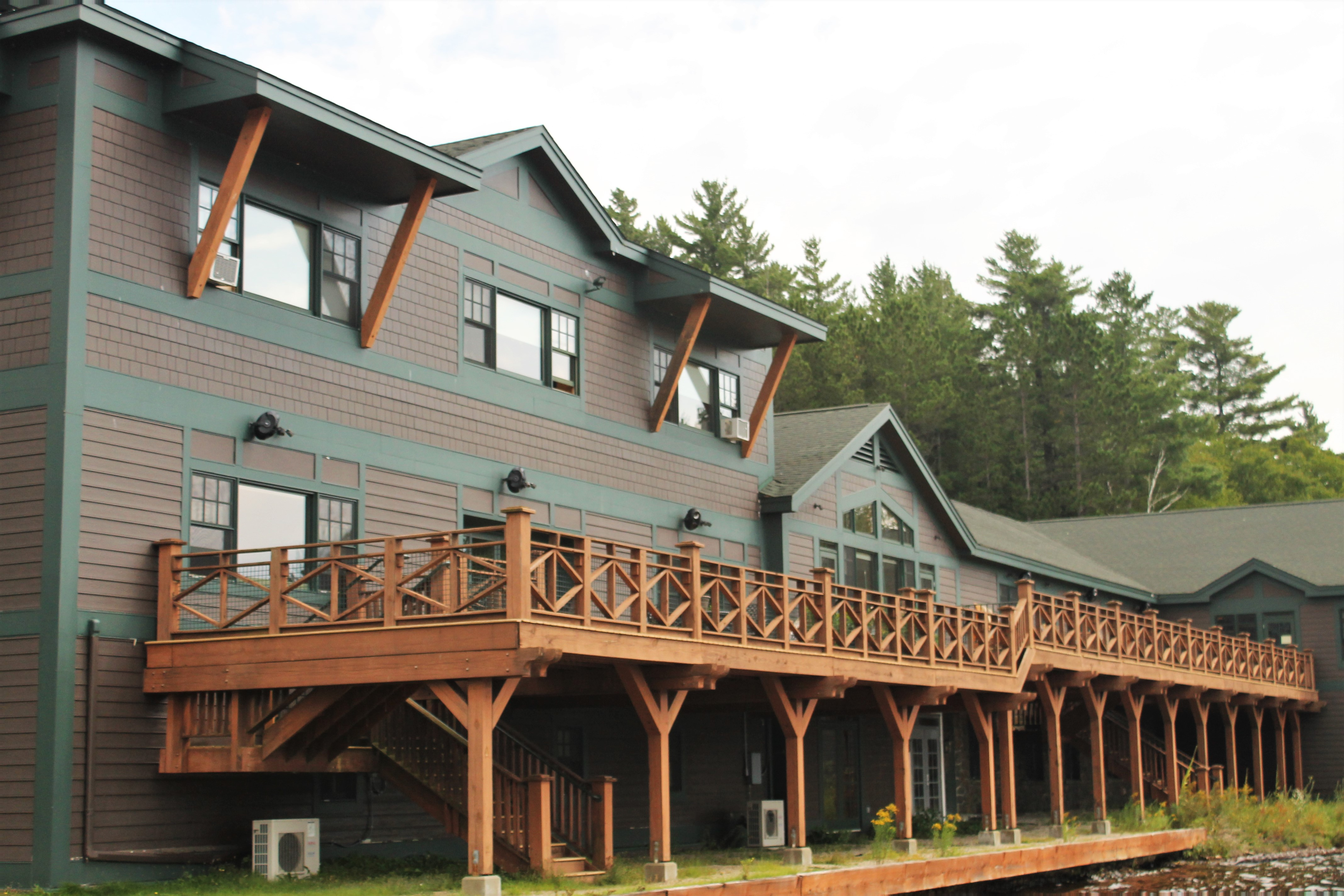 This is the Paul Smith's College Joan Weill Student Center. This contains various offices, as well as the dining hall, lounge, and recreation rooms for students.